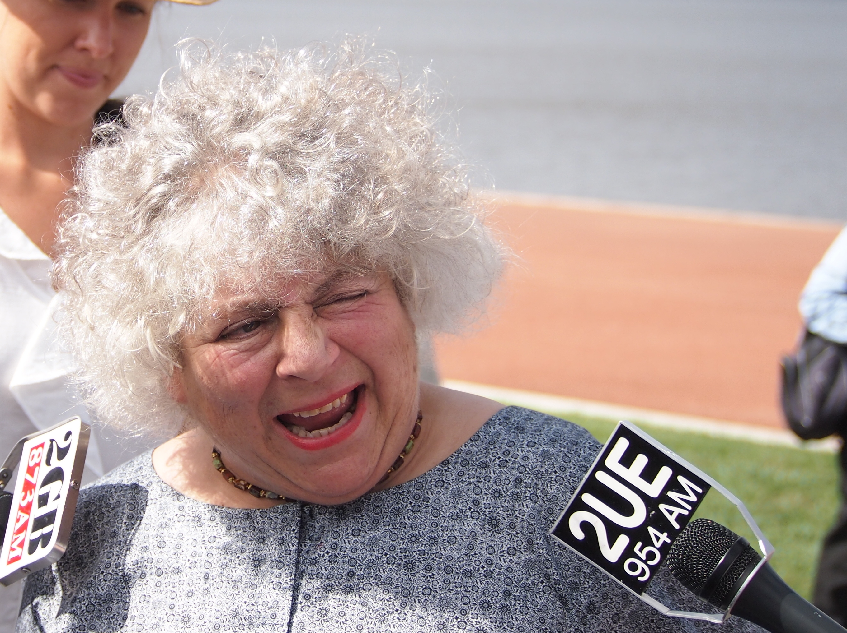 Miriam Margolyes speaking to journalists shortly after becoming an Australian citizen at the 2013 National Flag Raising and Citizenship ceremony